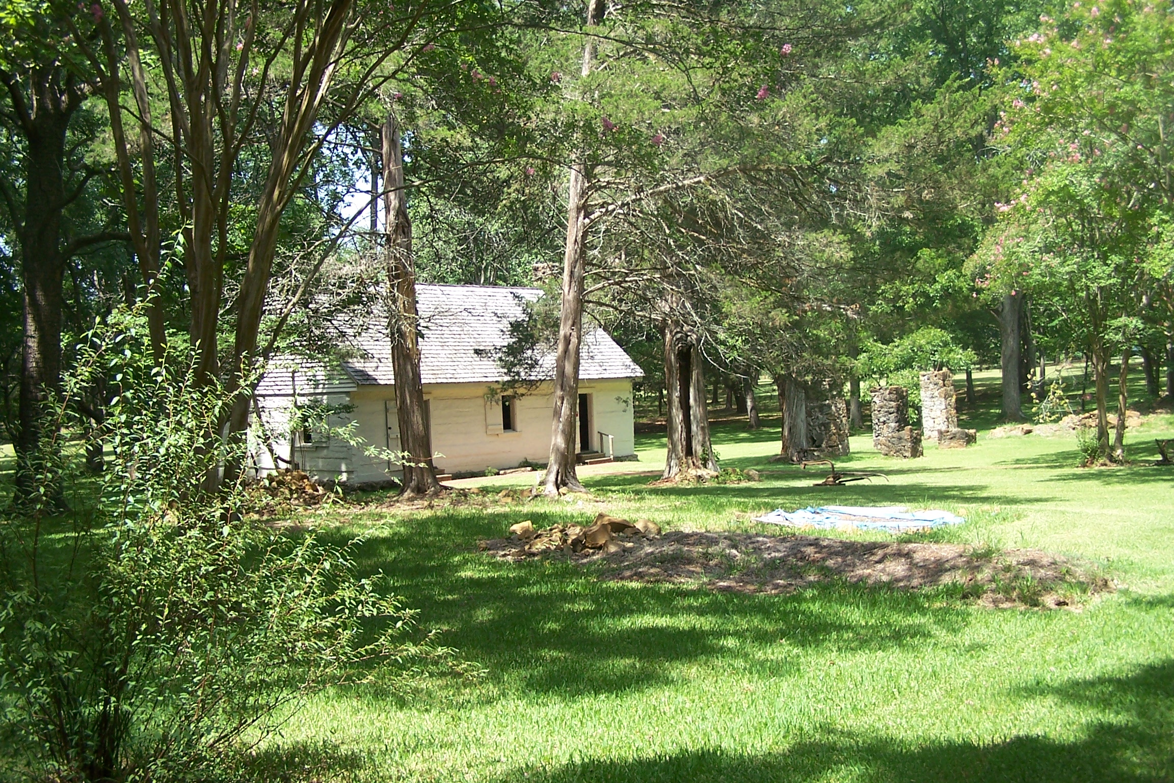 Army kitchen at Fort Jesup State Historic Site near Many, Louisiana.